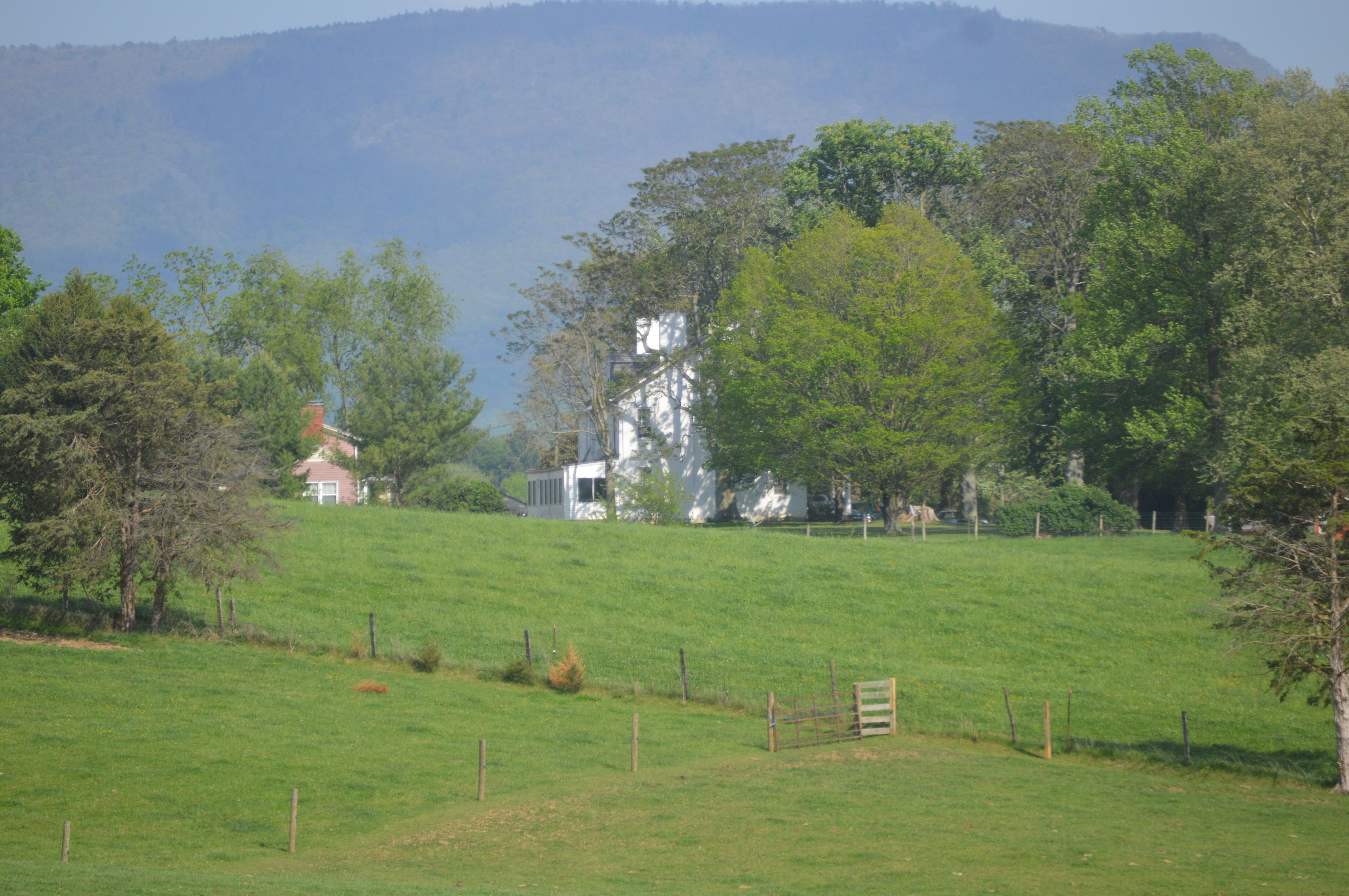 Distant view from the west of the Haugh House, located on State Route 253 between Harrisonburg and Port Republic in Rockingham County, Virginia, United States. Built in 1855, it is listed on the National Register of Historic Places.